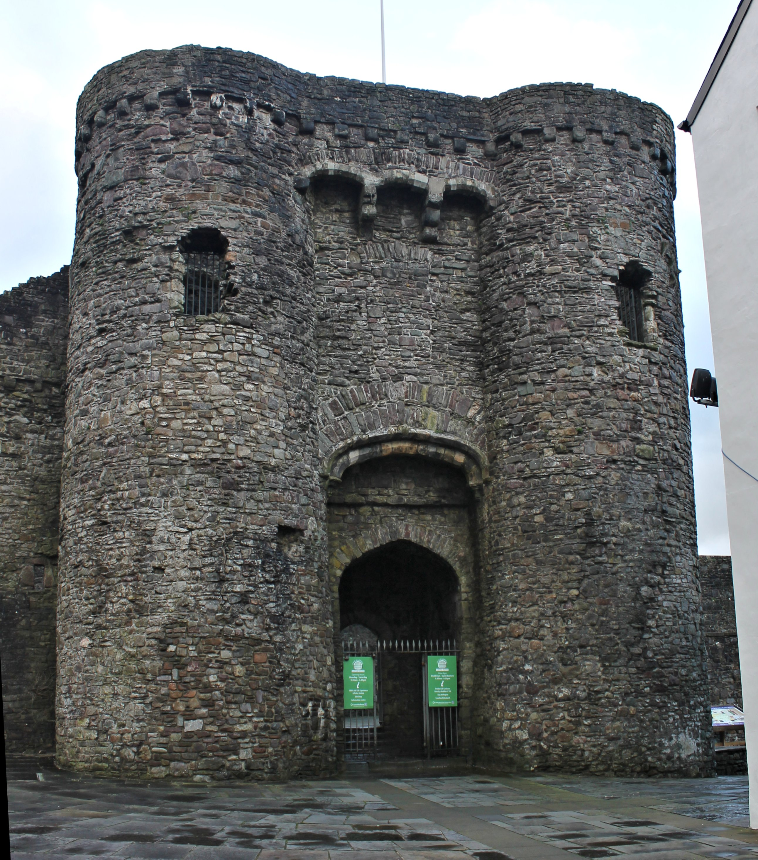 Main gateway to Castell Caerfyrddin / Carmarthen Castle.